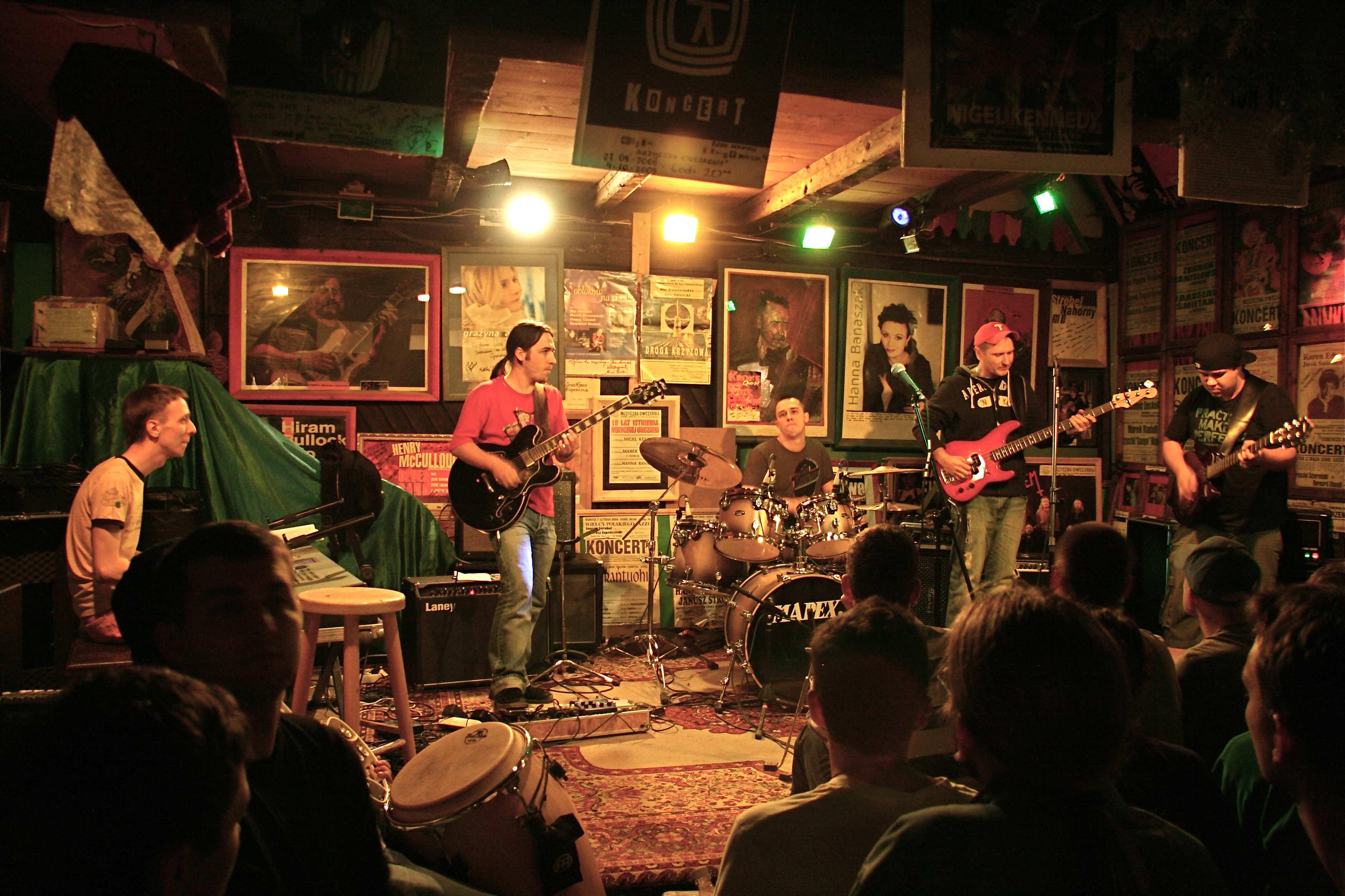 Muzyczna Owczarnia (association and music club in Jaworki, Poland) — stage. Photo taken during XIII International Music Workshops with ΠR2 band. From left: Kamil Barański, Rafał Panek, Tomek „Żaba” Mądzelewski, Wojtek Pilichowski, Artur „Booboo” Twarowski.